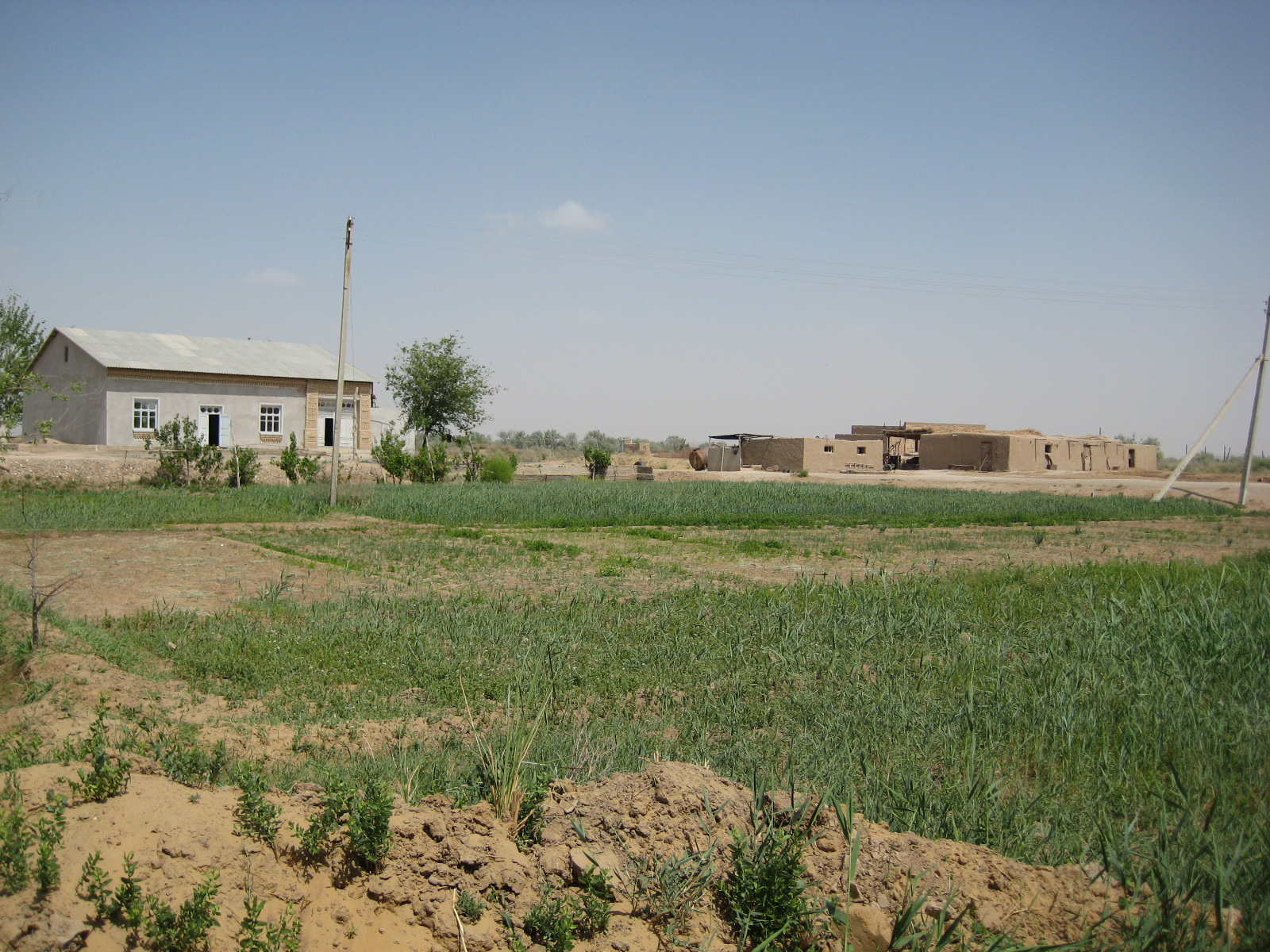 A typical household plot in Uzbekistan, Khorezm Province